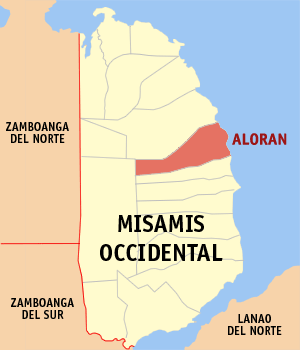 Map of the Misamis Occidental showing the location of Aloran